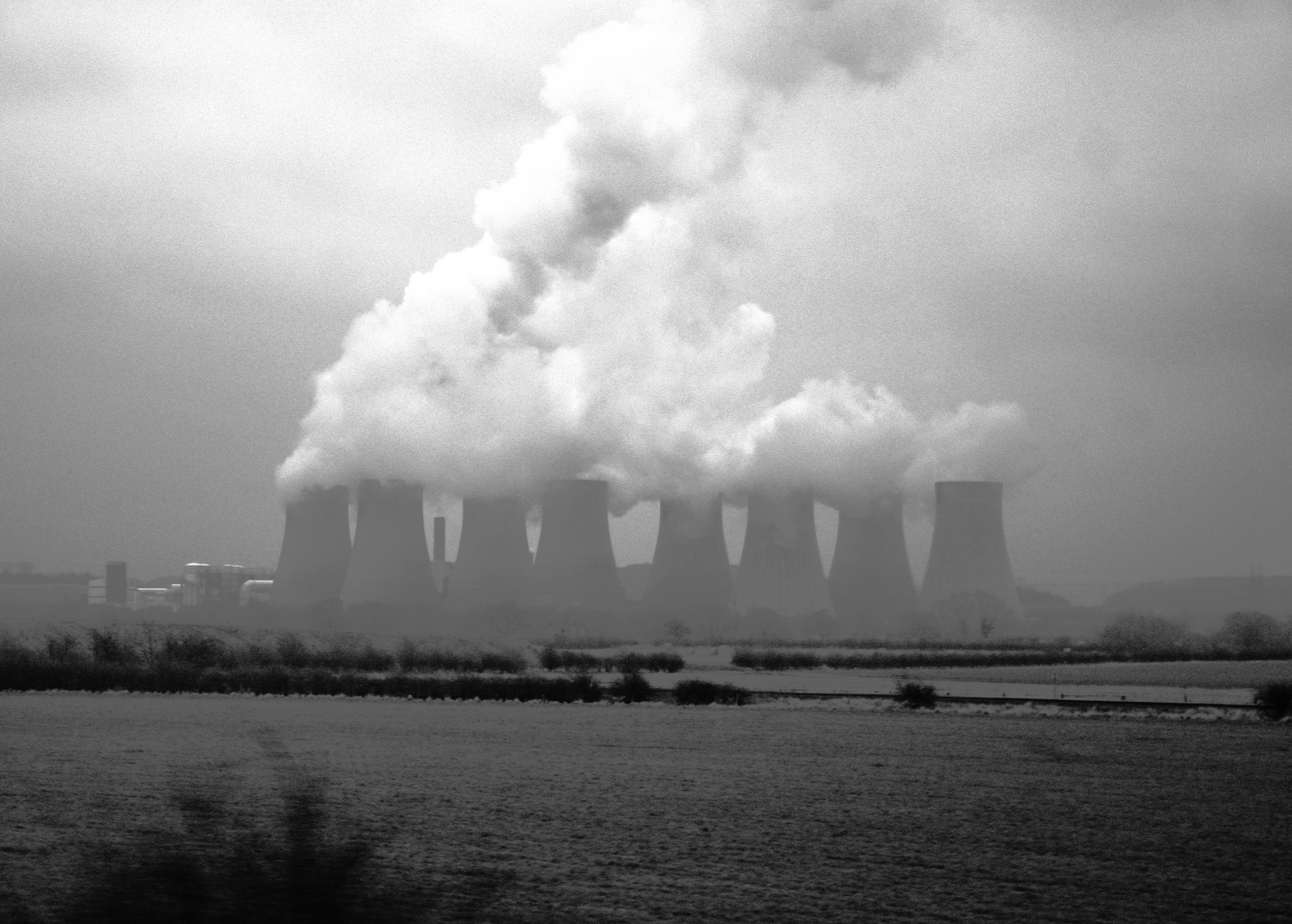 Ratcliffe Power Plant, Nottinghamshire